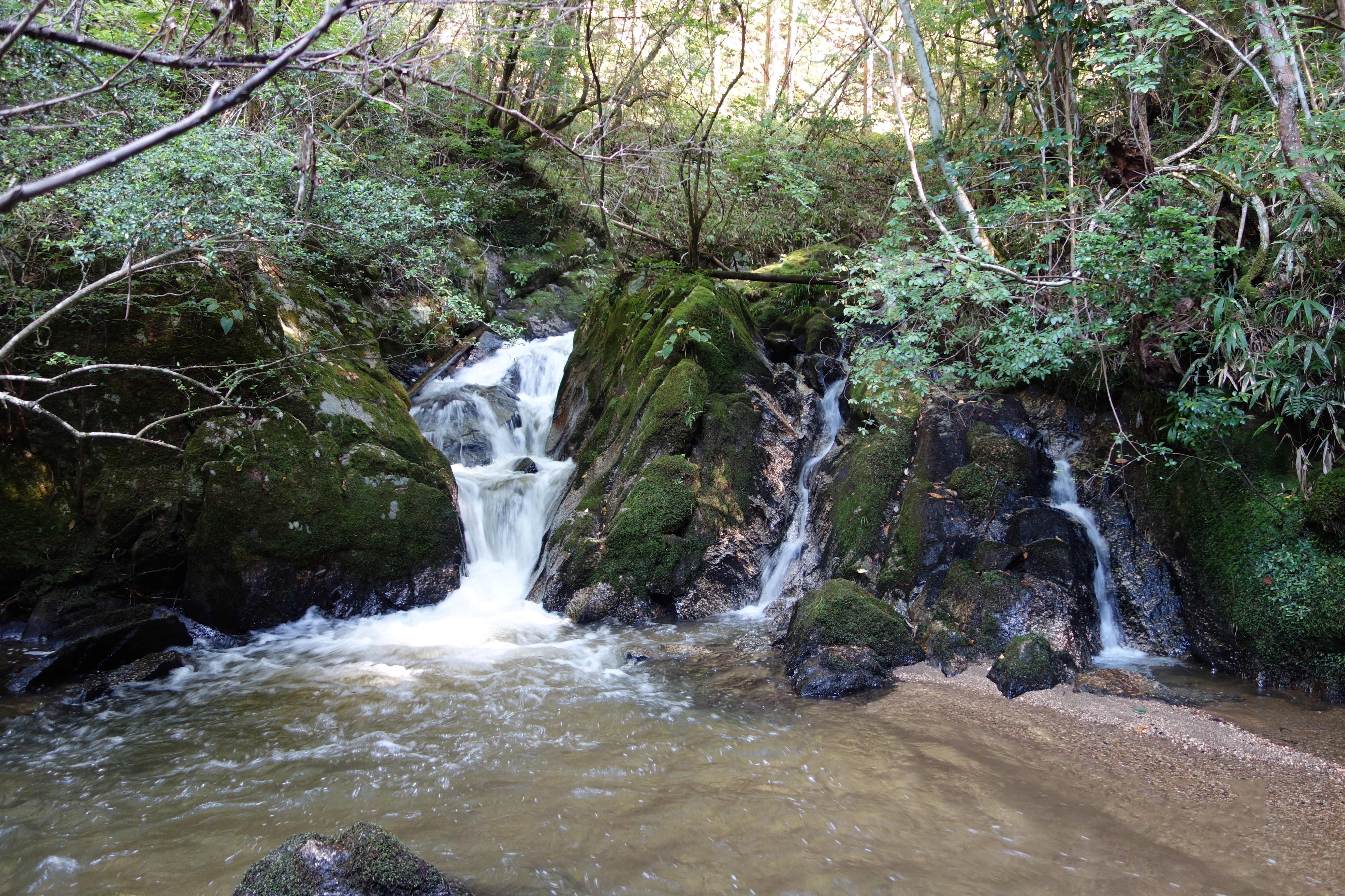 8.Kamiari no taki(waterfall) in Kōyama, Shigaraki, Koka, Shiga, Japan